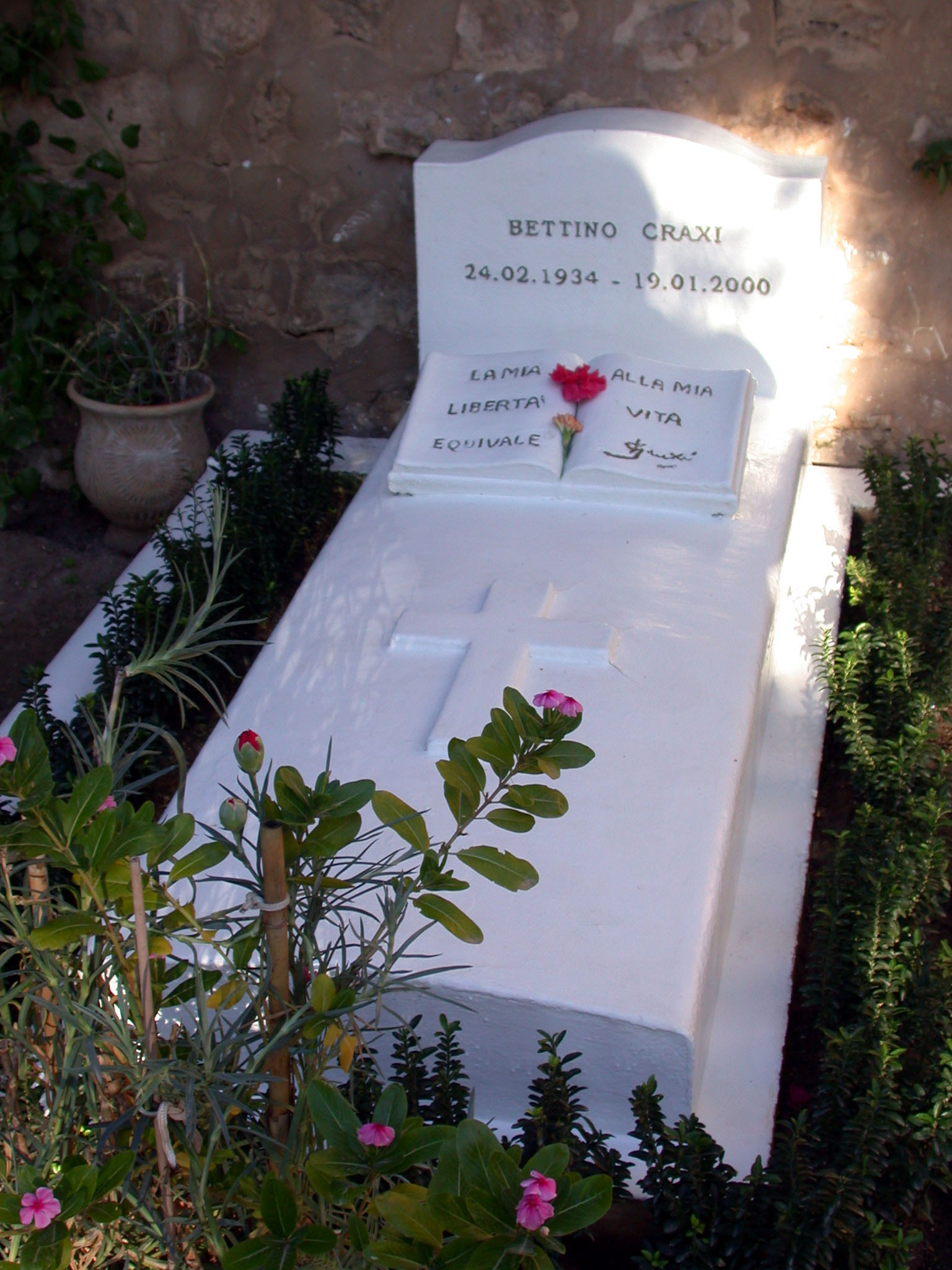 Tomb of Bettino Craxi in Hammamet, Tunisia